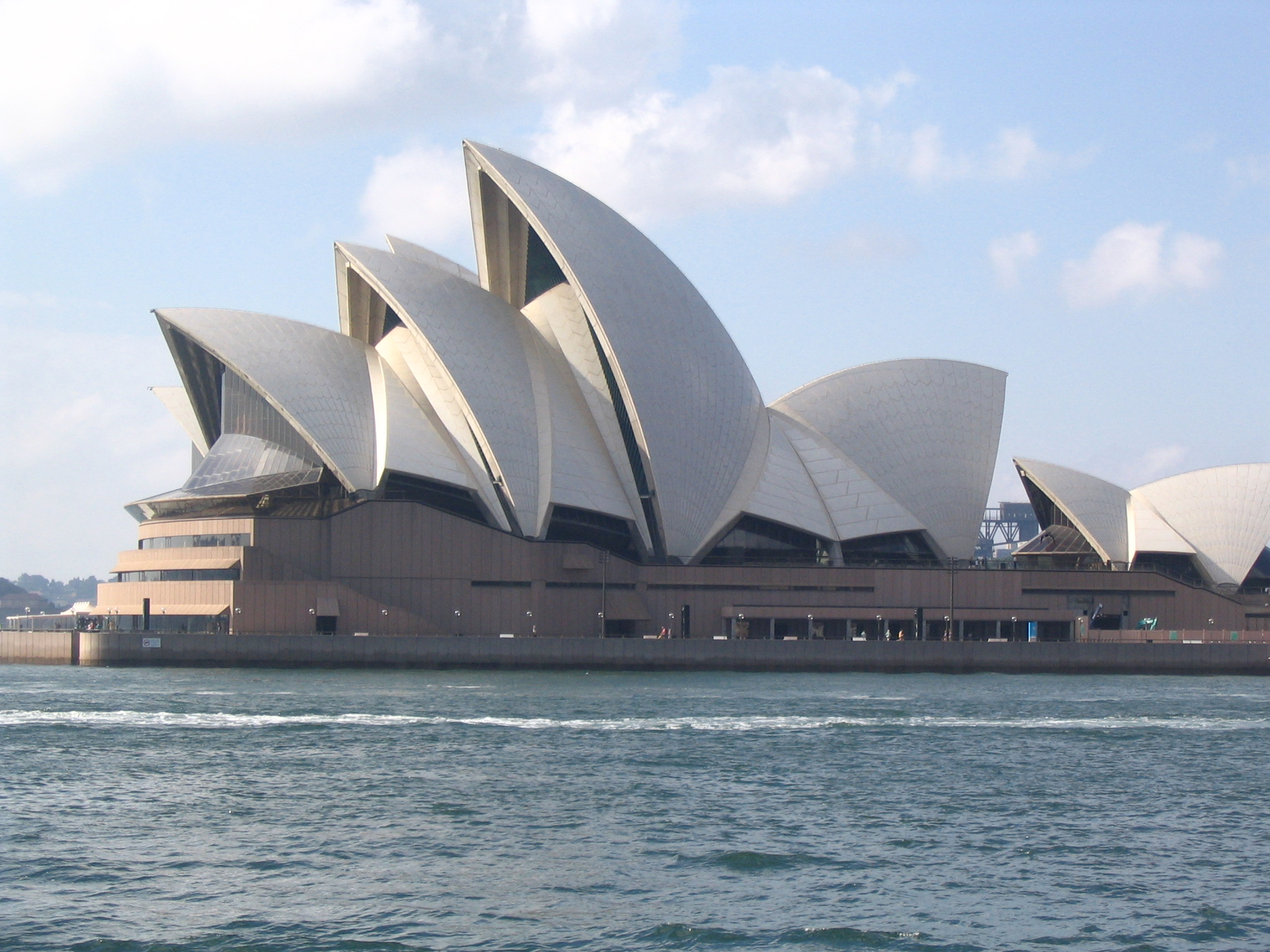 Profile view of Sydney Opera House from shore of bay in April 2007.